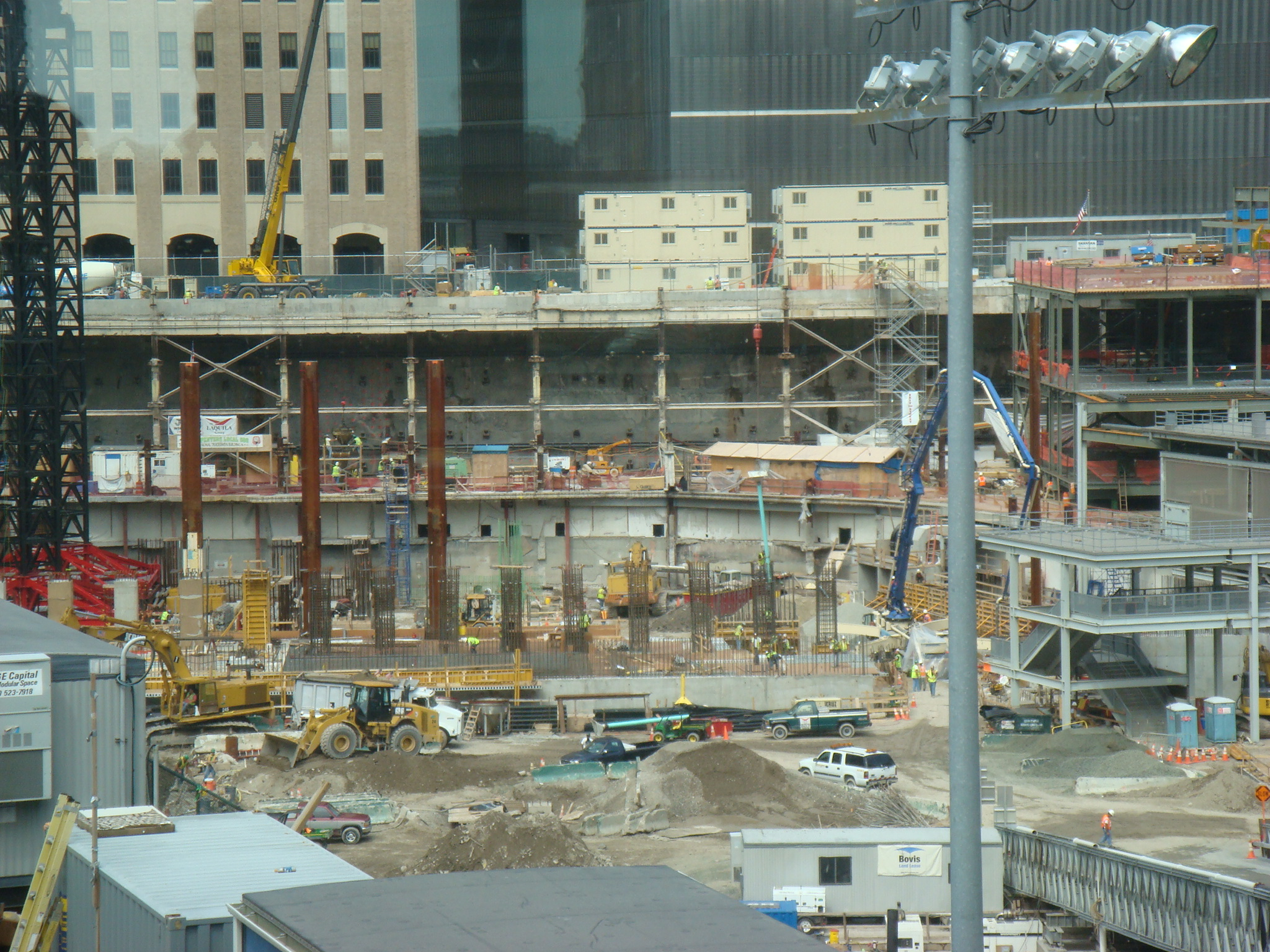 This is a photo taken on a walkway with a view of the Freedom Tower Construction Site as of August 7th, 2007.